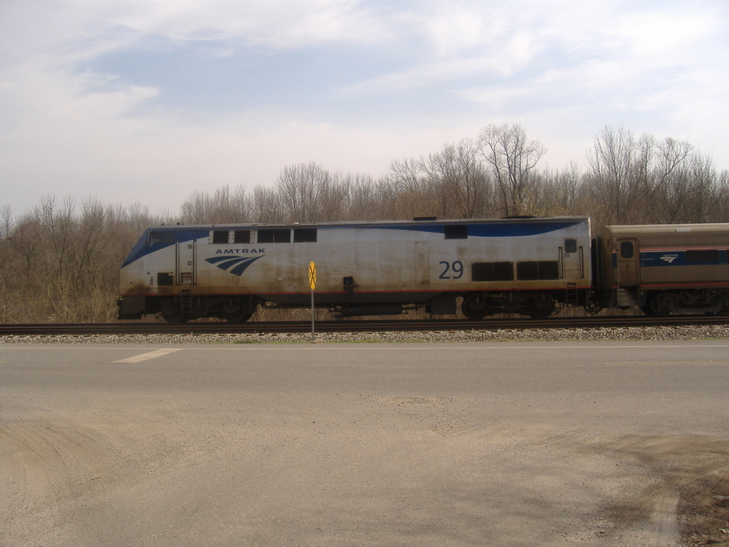 Amtrak P42DC locomotive #29 with eastbound Wolverine train #352 waits on double track in Comstock, Michigan for a westbound freight train to pass (and thus clear the single-track segment ahead) in April 2008. Train #352 was delayed nearly an hour waiting for the freight train to clear, despite departing Kalamazoo on time.